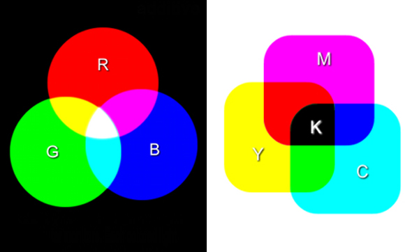 Comparison of RGB and CMYK color models